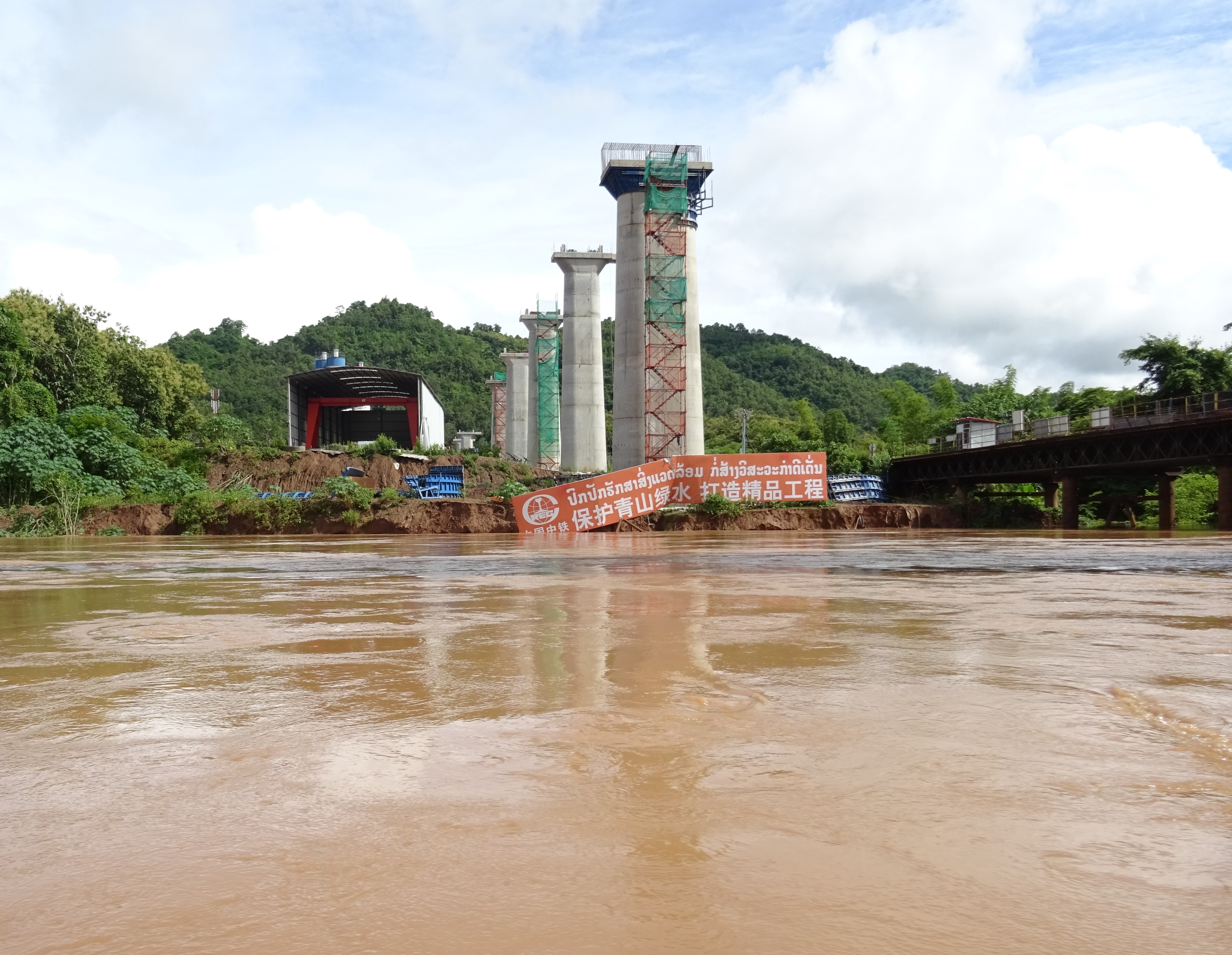 Bridge construction on the Mekong in Luang Prabang Province. The bridge will be a part of the Vientiane–Boten railway.